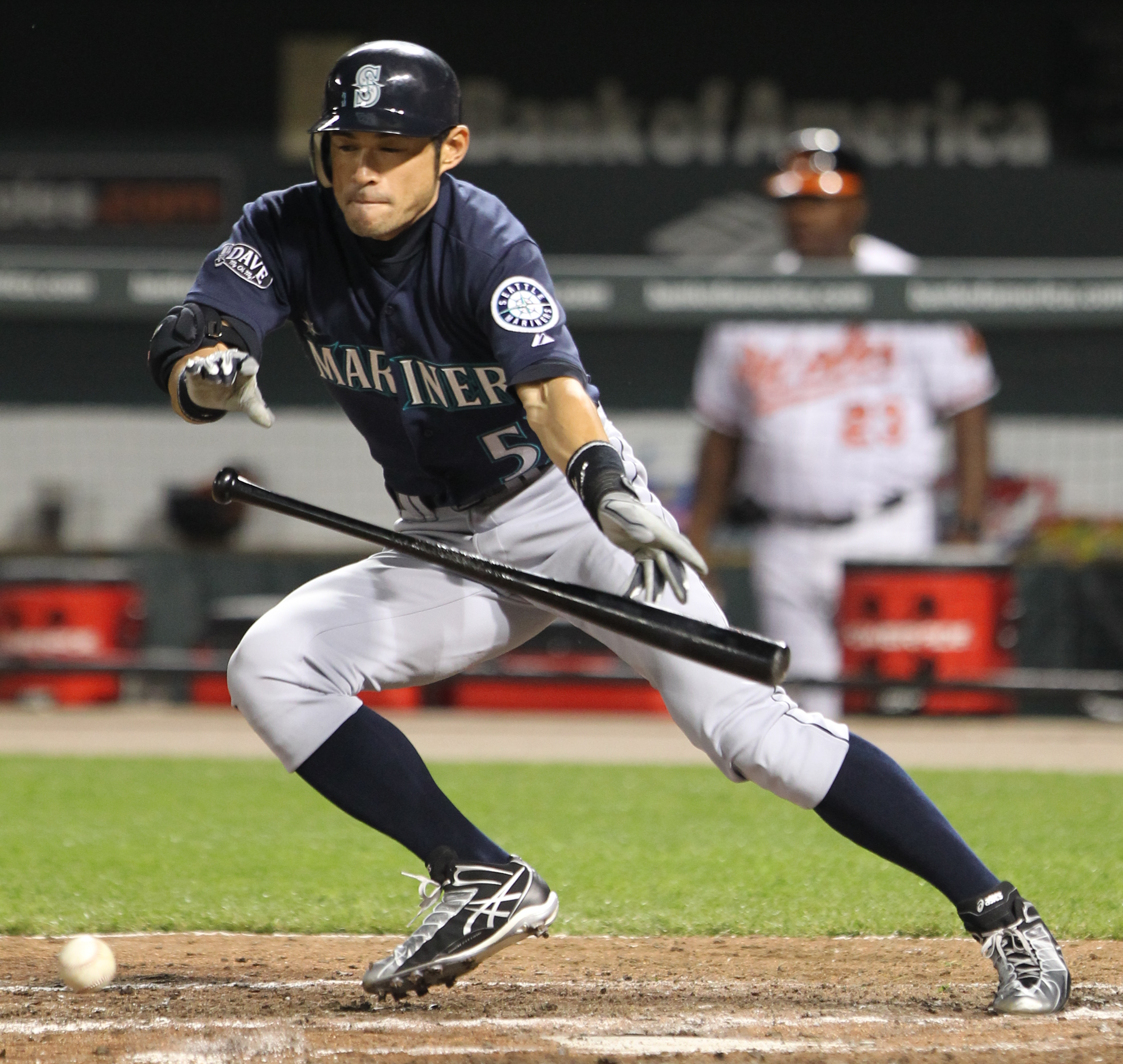 Seattle Mariners right fielder Ichiro Suzuki (51) bunts for a single in the seventh inning against the Baltimore Orioles on May 10, 2011 at Oriole Park at Camden Yards in Baltimore.